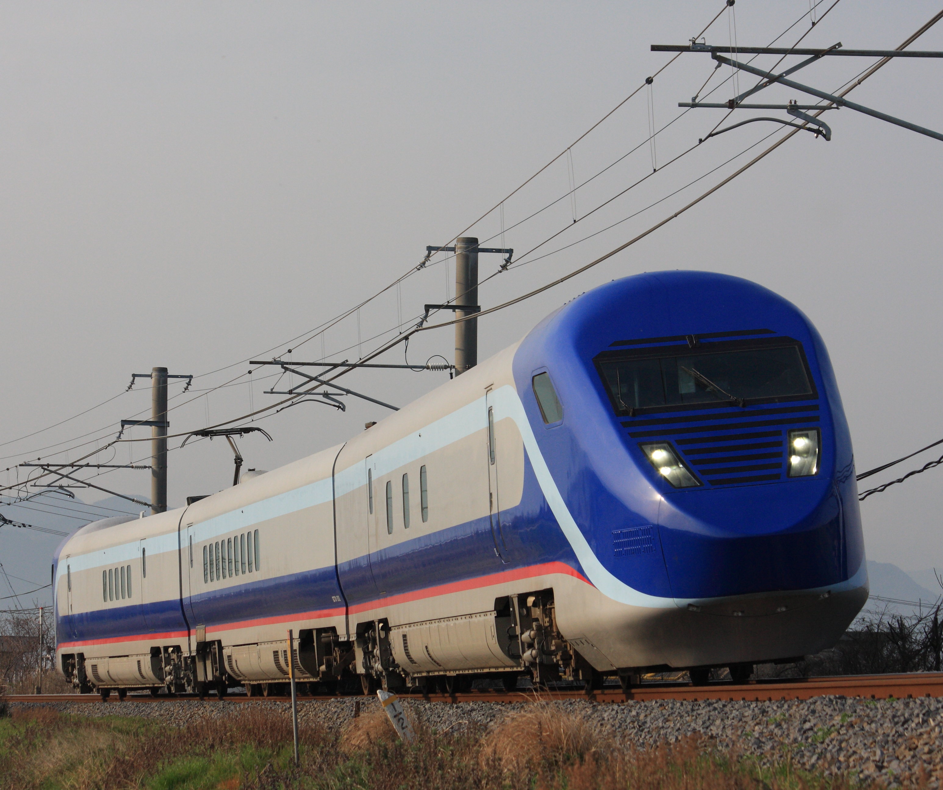 The second-generation "Free Gauge Train" set on a daytime test run on the Yosan Line near Kanonji Station